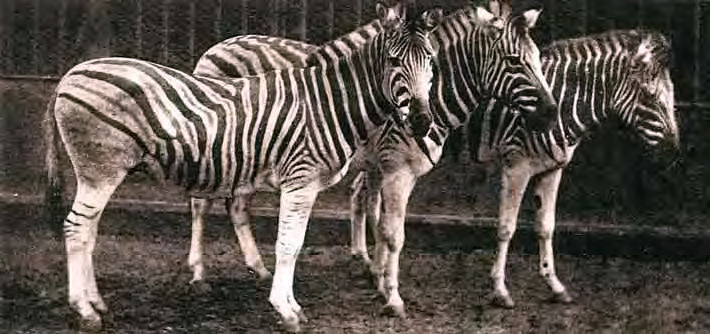 J. F. Nott, phot. approx. 1886: ZG London’s last trio of DAUW (1.2)..